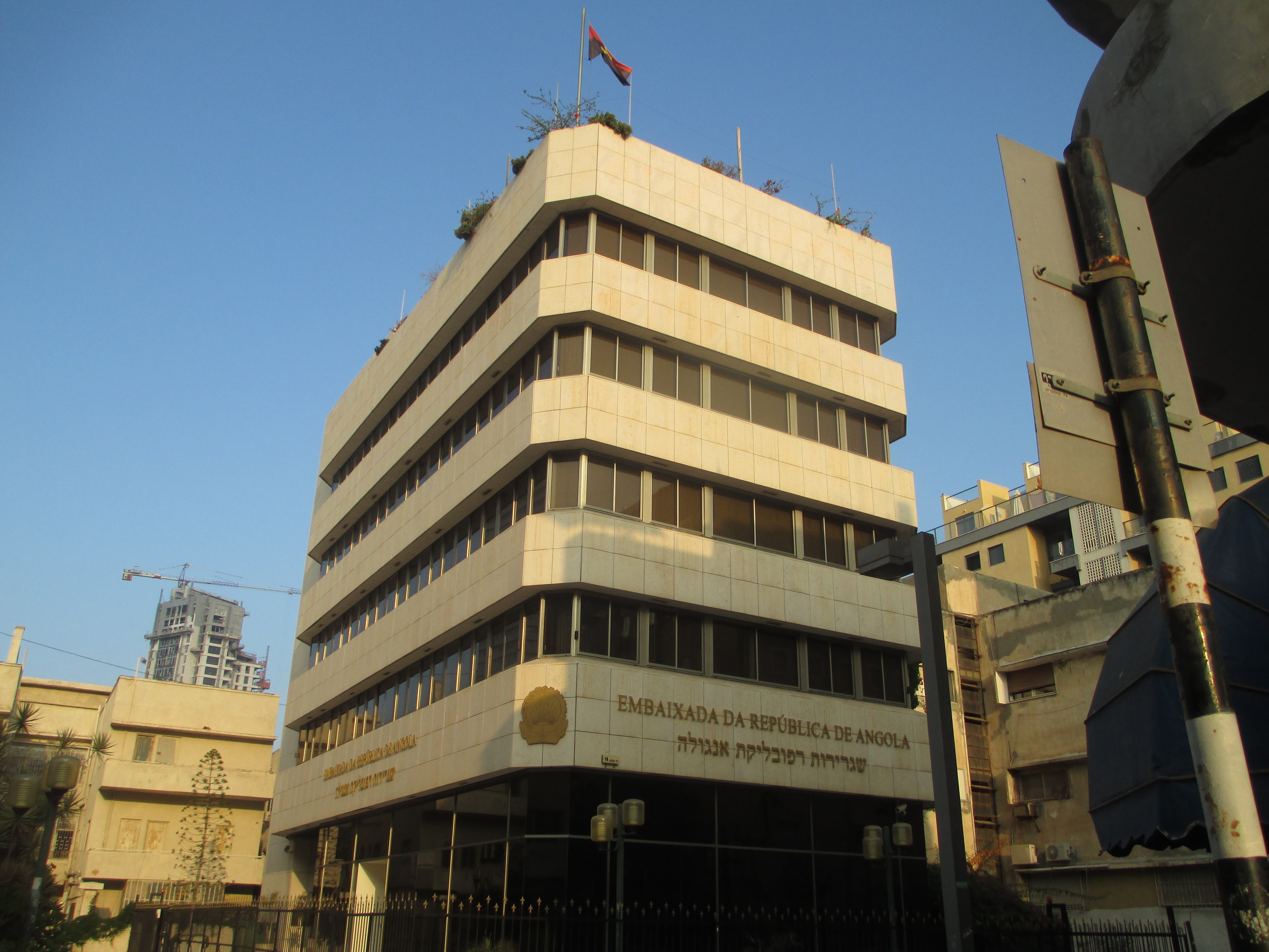 Angola Embassy, Tel Aviv